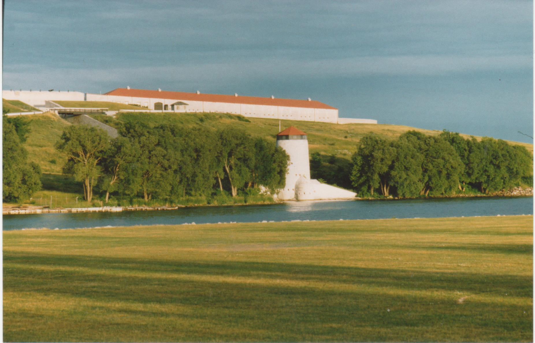 Old Fort Henry, Kingston Ontario